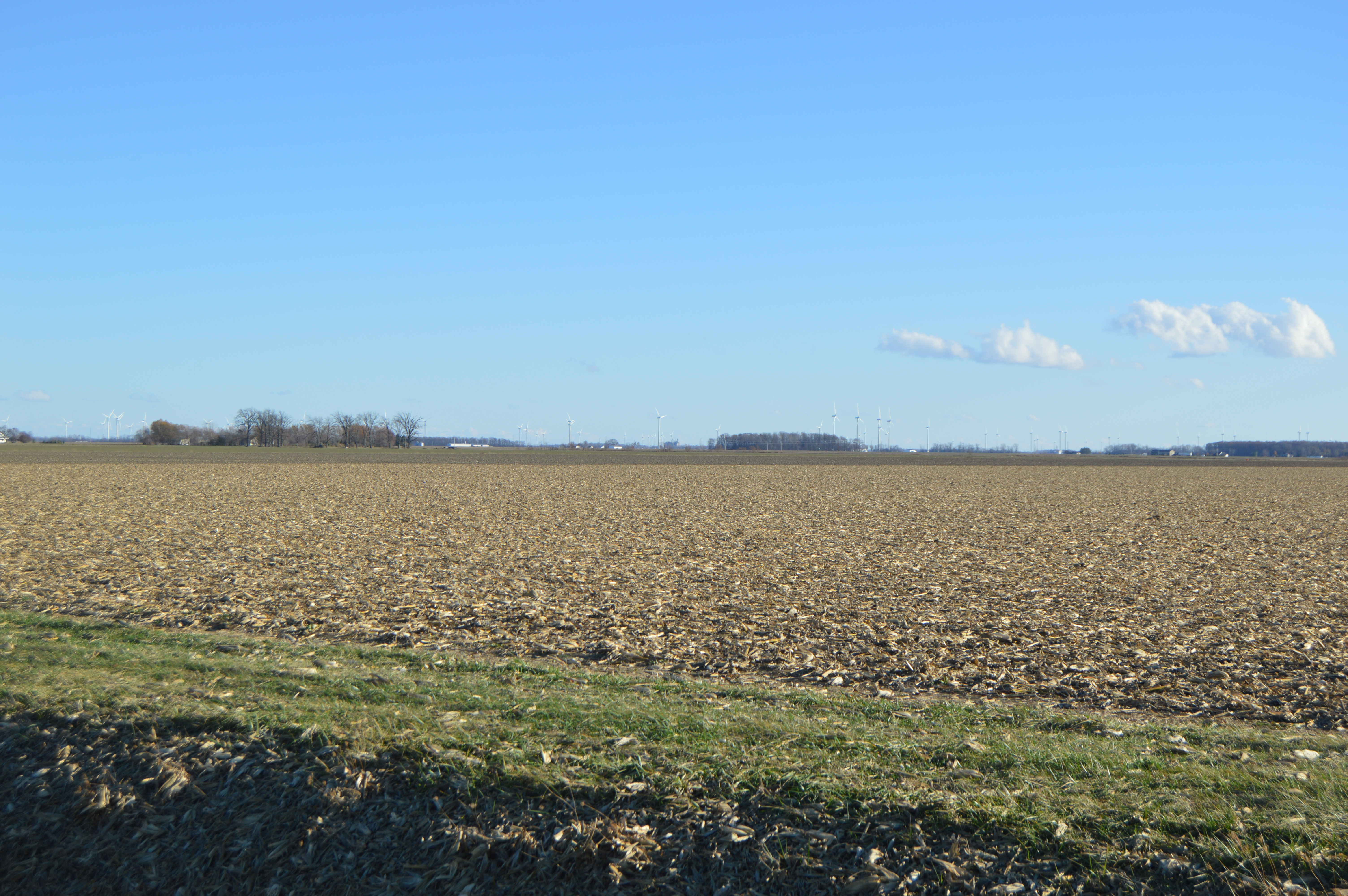 Looking southeast from Road 72 east of Road 71 in Blue Creek Township, Paulding County, Ohio, United States.